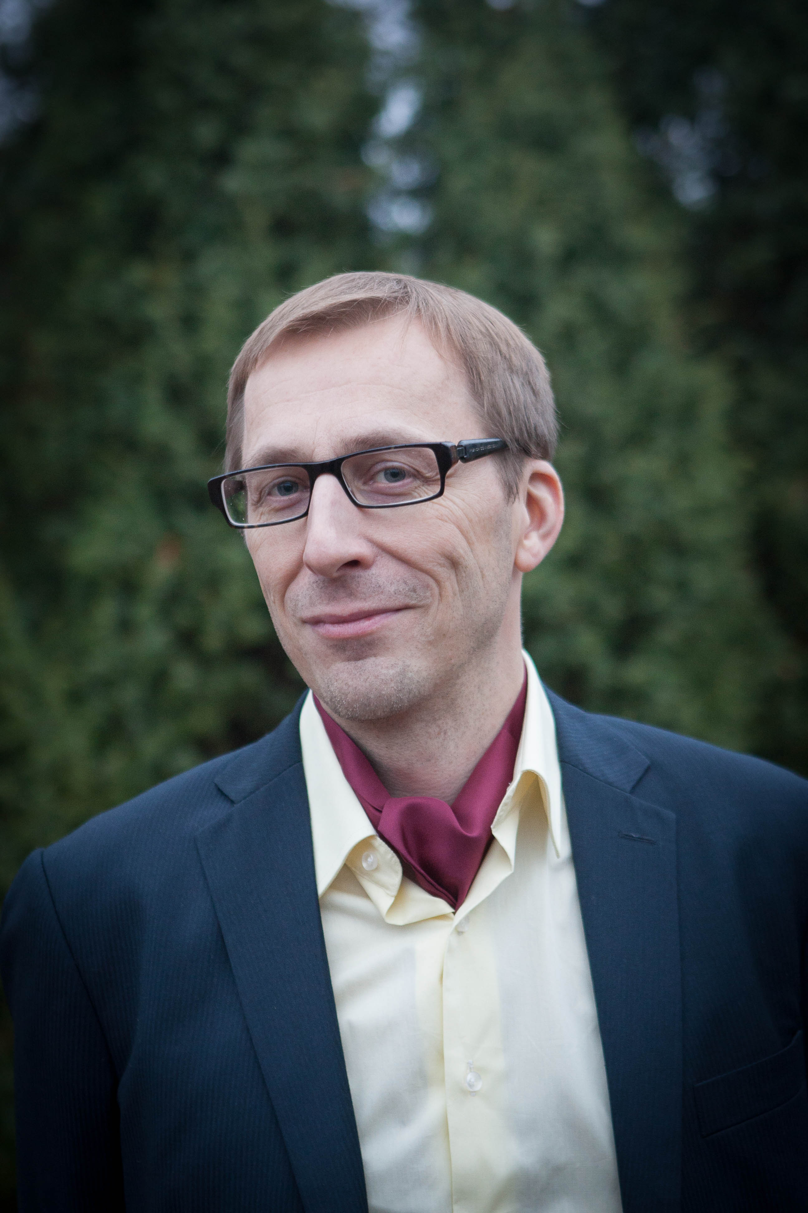 Osmo Tapio Raihala